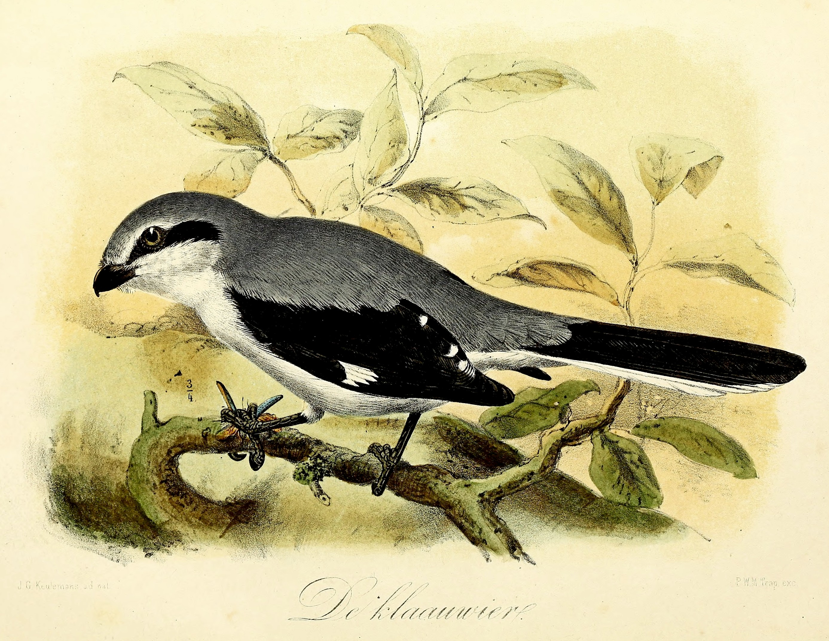 « Lanius excubitor » = Lanius excubitor (Great grey shrike)